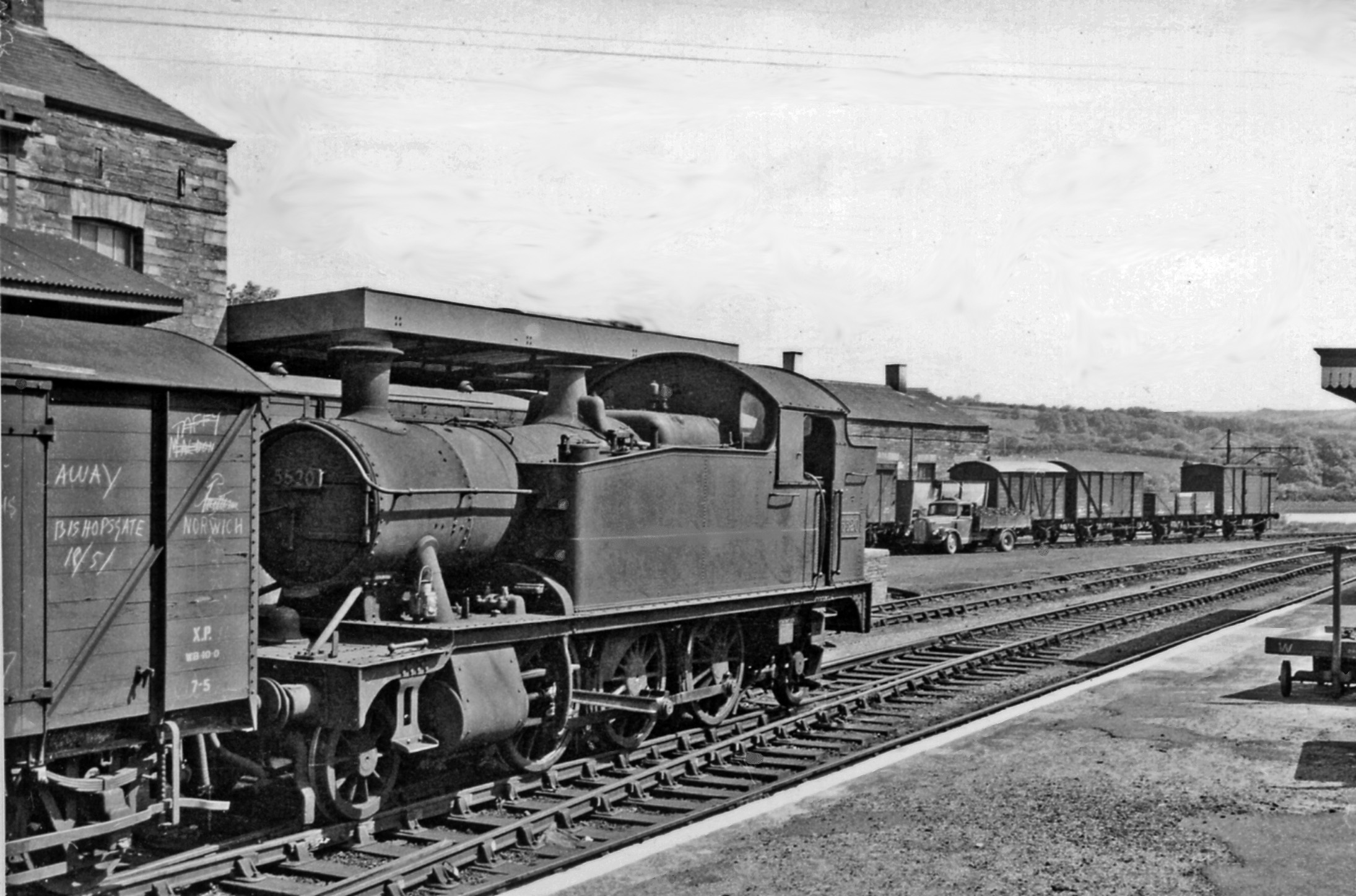 A '4575' 2-6-2T with goods train at Cardigan station. View eastward, towards Whitland at the terminus of the ex-GW branch from Whitland. The branch was closed for passengers on 10/9/62, to goods on 27/9/63, but there seems to have been plenty of traffic around here in 6/1962. The locomotive is No. 5520 (built 12/27, withdrawn 9/62).